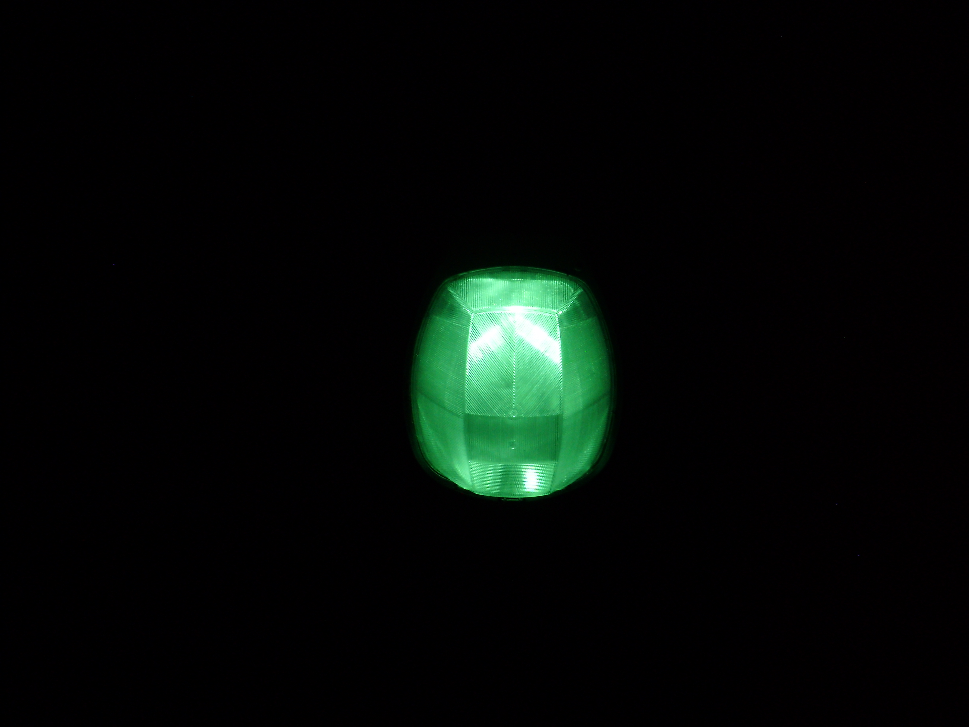 Mercury vapor street light at night along Terrace Boulevard in Ewing, New Jersey